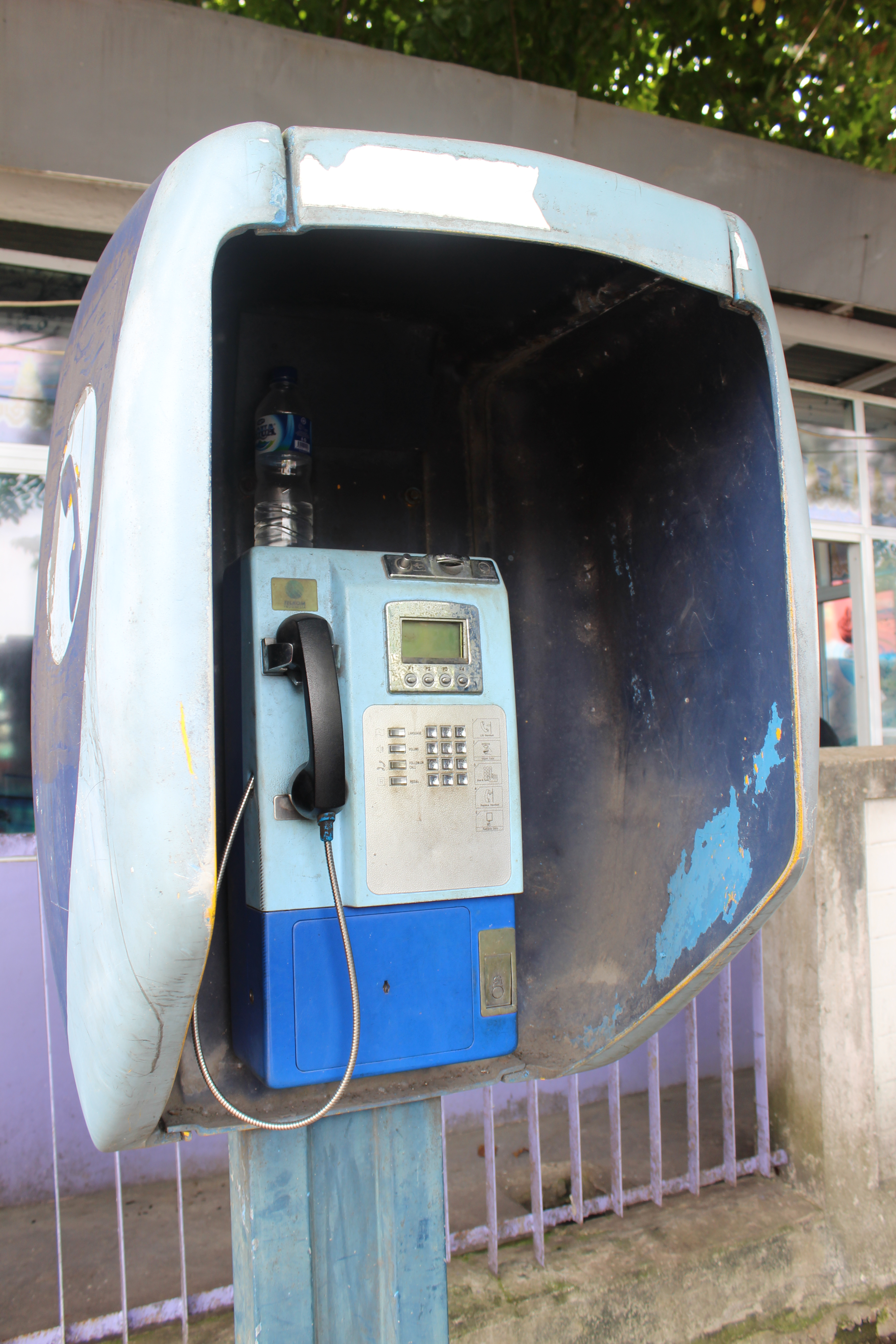 A public telephone booth in Pekanbaru, Indonesia.